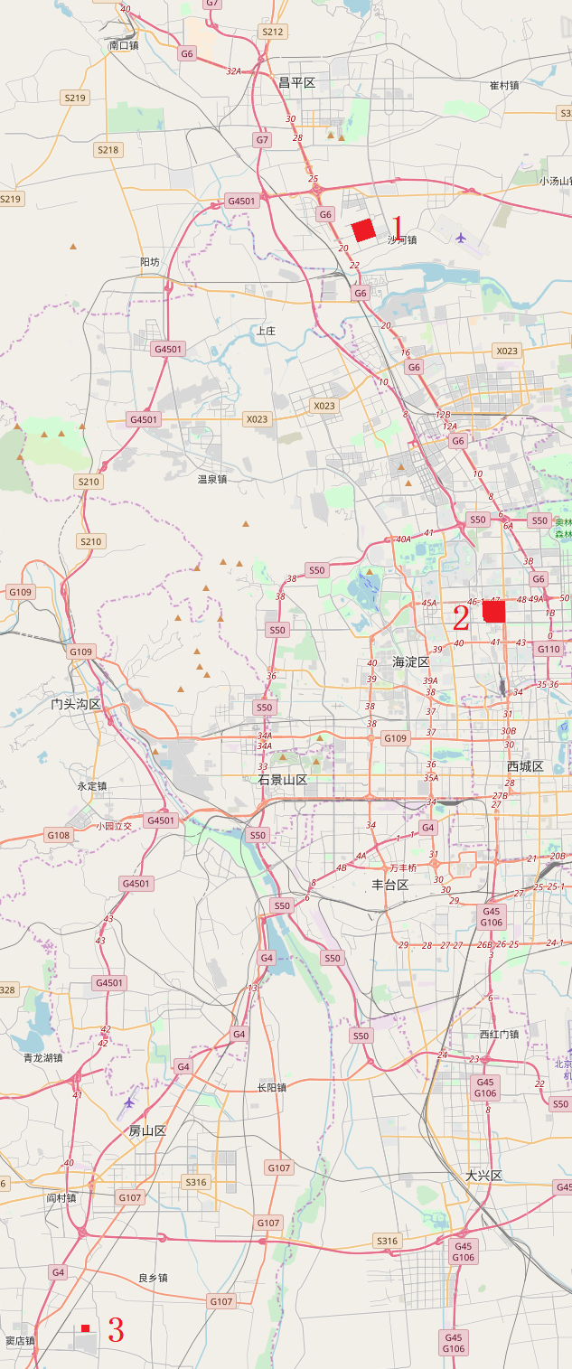 This is a map showing where the campuses of BUAA in Beijing City located. 1: Shahe Campus (9 South 3rd St., University Park, Shahe Area, Changping) 2: Xueyuan Road Campus (37 Xueyuan Rd, Huayuan Road Subdistrict, Haidian) 3: Doudian Campus (Doudian Town, Fangshan)